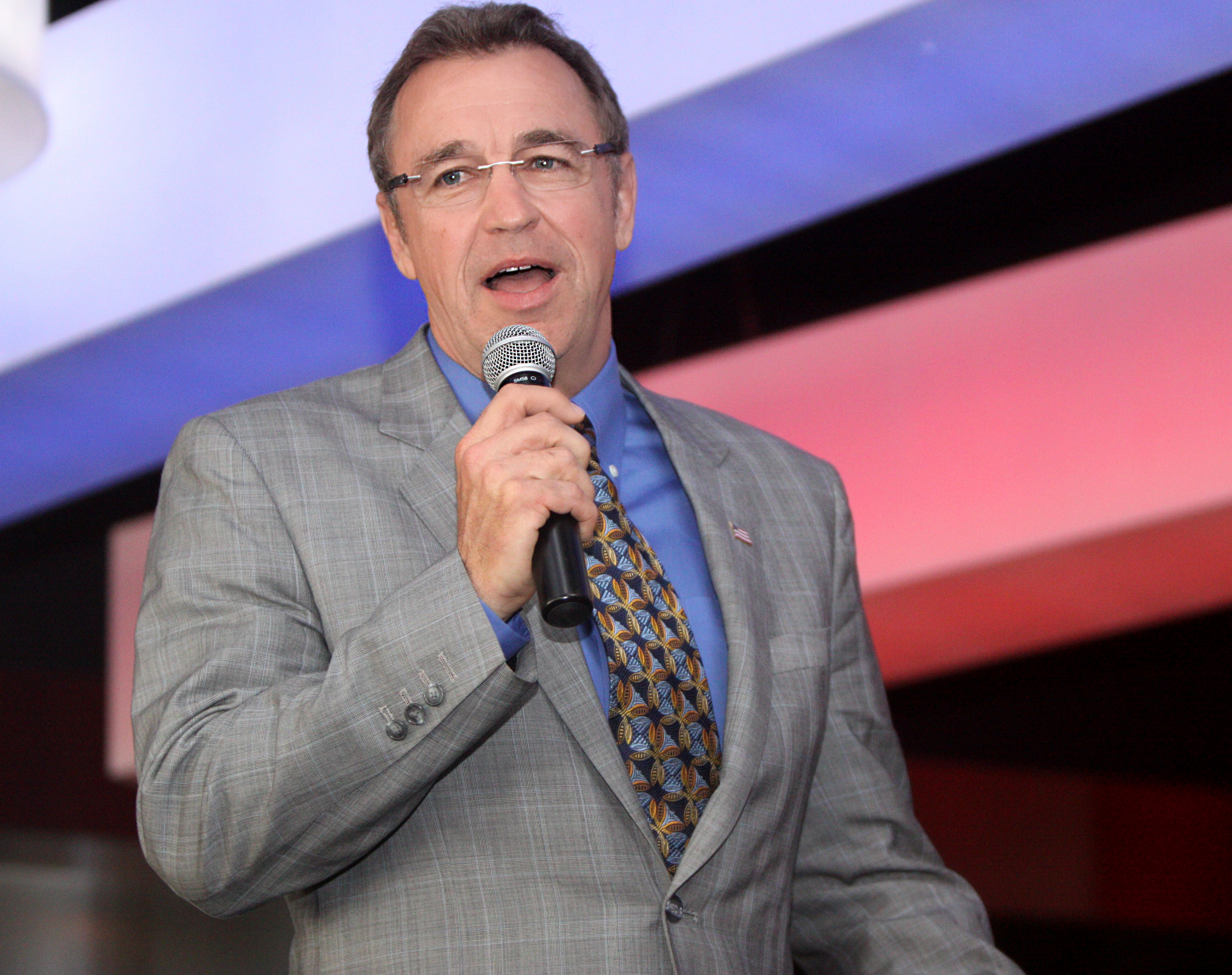 Member of the U.S. House of Representatives from Arizona's 5th district & 1st district; Chair of the Arizona Republican Party